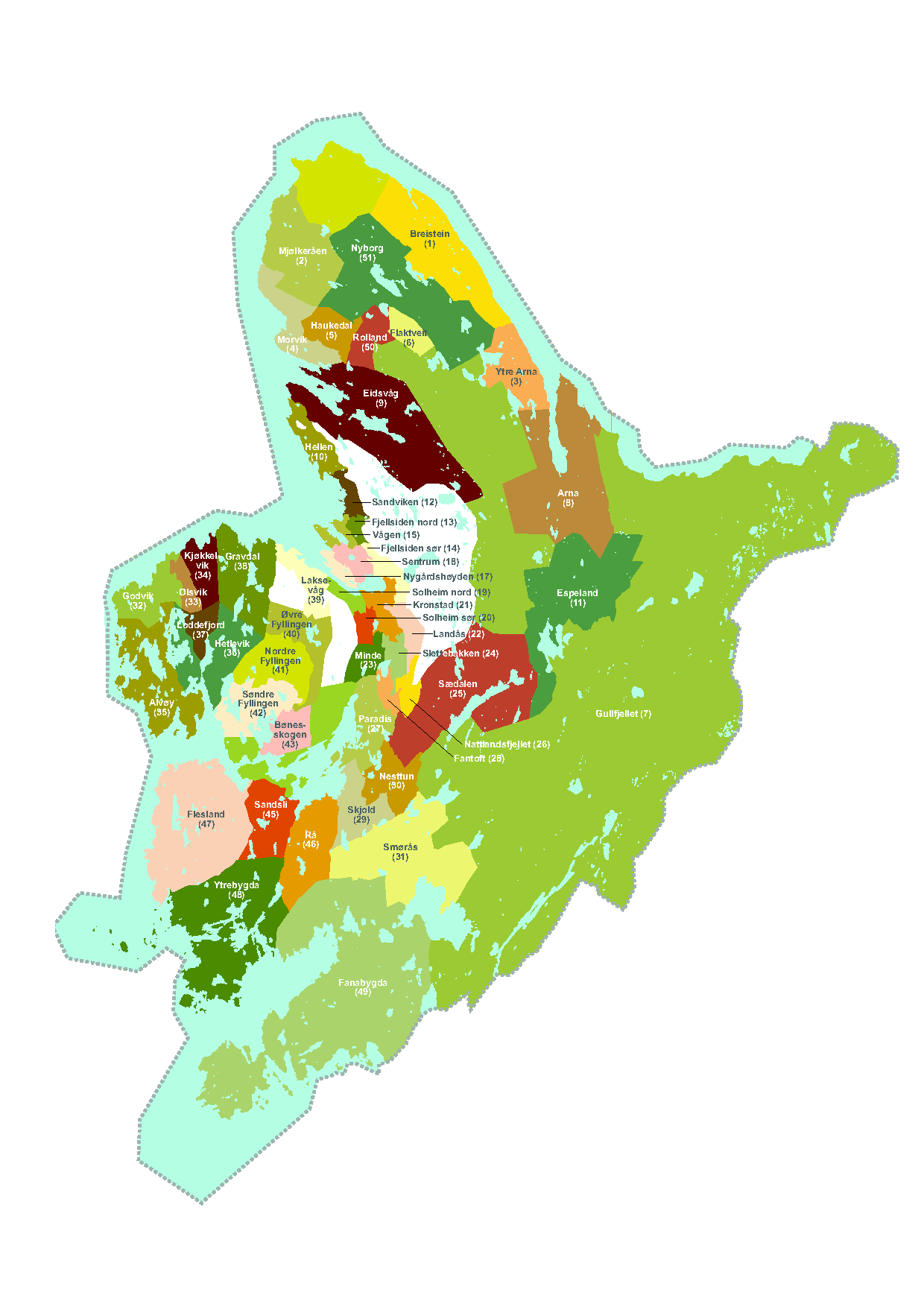 Made for this rapport: This map roughly shows the main non-administrative and unformal boroughts (Norwegian: strøk) of Bergen. Most of them are based on the limits of old agricultural and farm domains, and it is therefore possible to subdivide them and rearrange them. Concerning the historic center of the city, here divided by the figures 12 to 18, the subdivisions are also possible. These divisions on the map are used by the Kommune to make some socio-economics studies. This map if therefore more informative in this context than historic or destined to be very accurate concerning deeper studies concerning domain limits etc. It represents the boroughts in which nowadays a person identifies hinself/herself as inhabitant of this or that borought.